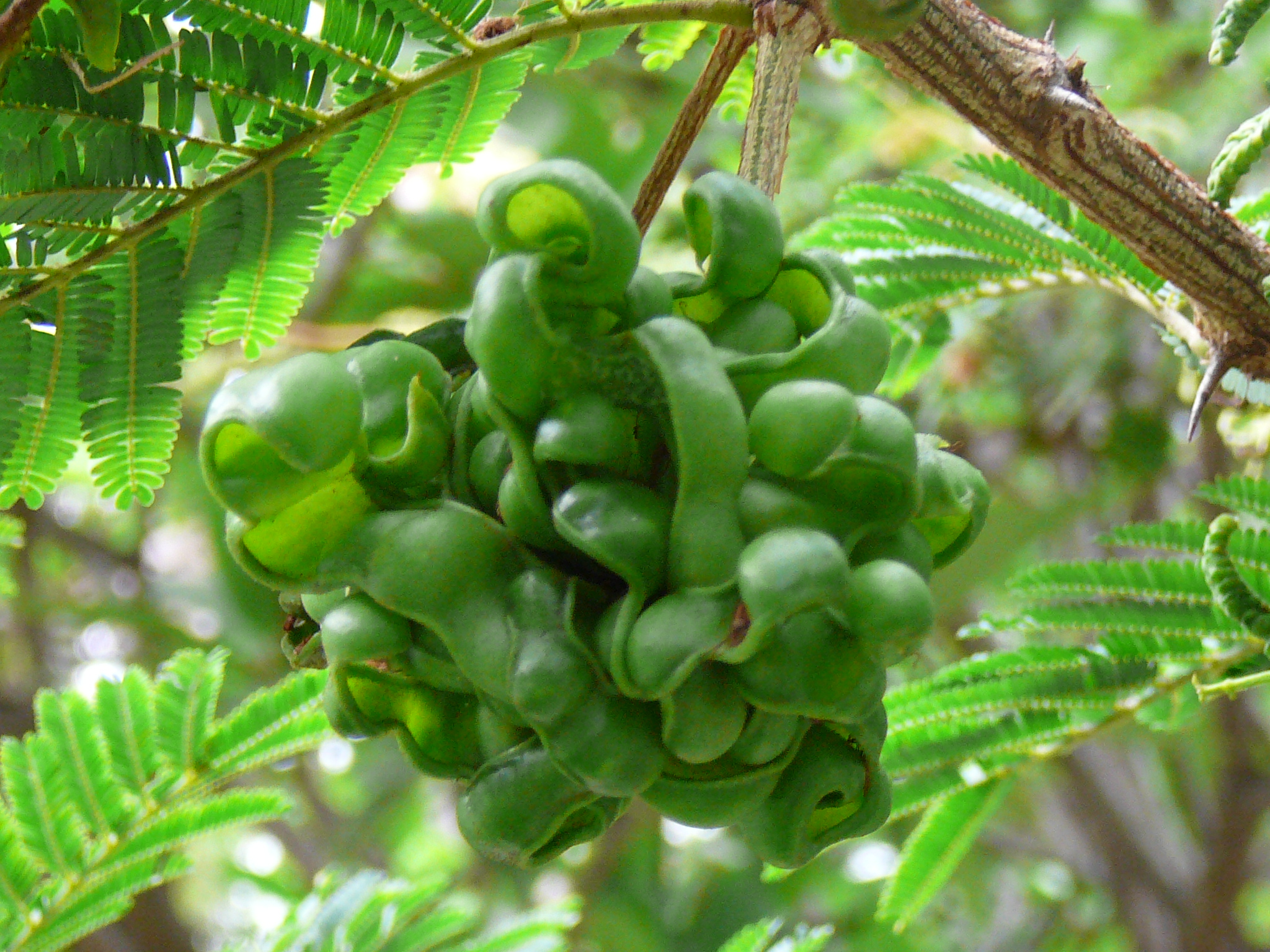 Bell-flowered Mimosa